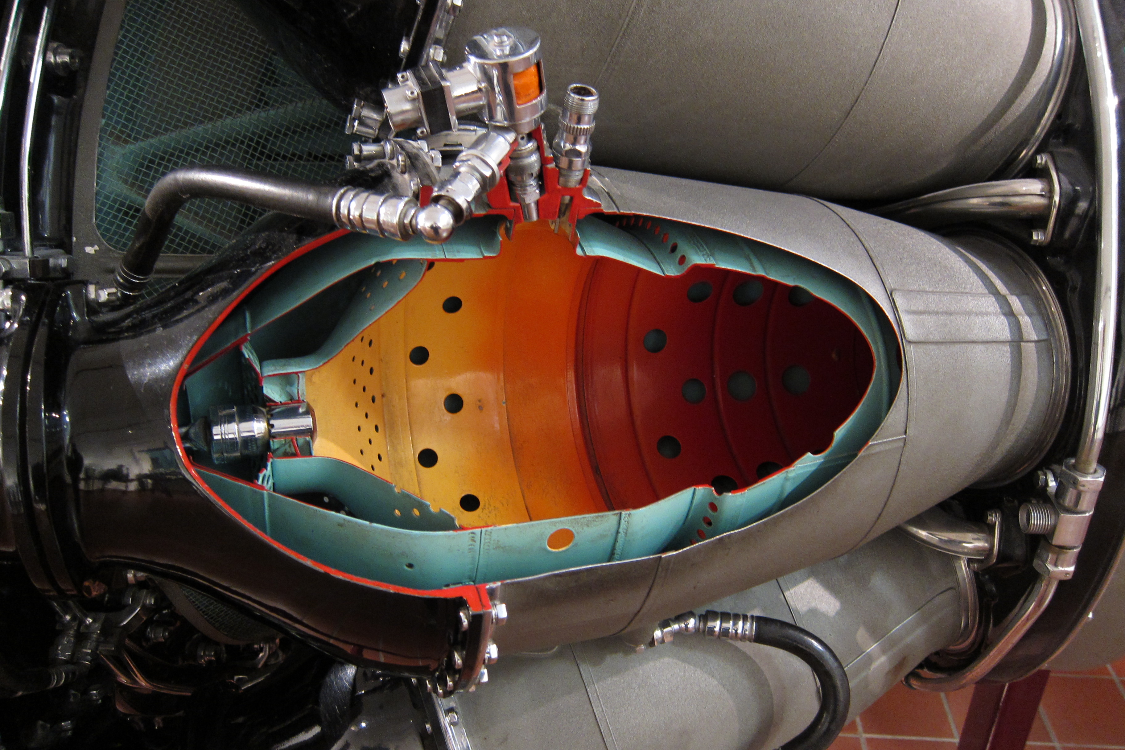 A sectioned Combustor installed on a Rolls-Royce Nene turbojet engine, as displayed at the Deutsches Museum.